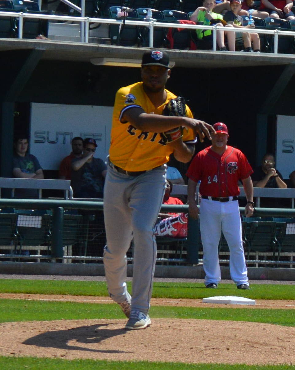 Sandy Baez of the Erie SeaWolves makes a pickoff attempt during a 2018 game against the Harrisburg Senators at FNB Field